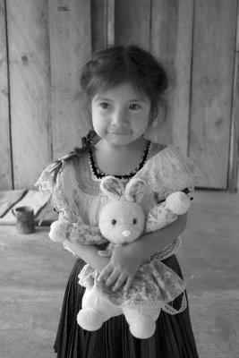 A beutifull girl of amatenago